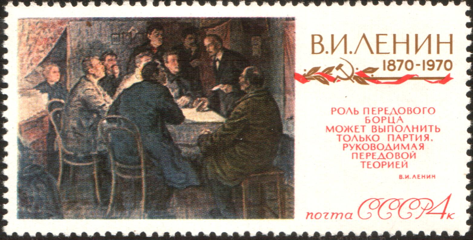 USSR stamp: Lenin at Marxist Meeting, Saint Petersburg (After Alexander Moravov). Series: Centenary of Birth of Vladimir Lenin (1870-1924). Lenin on Paintings